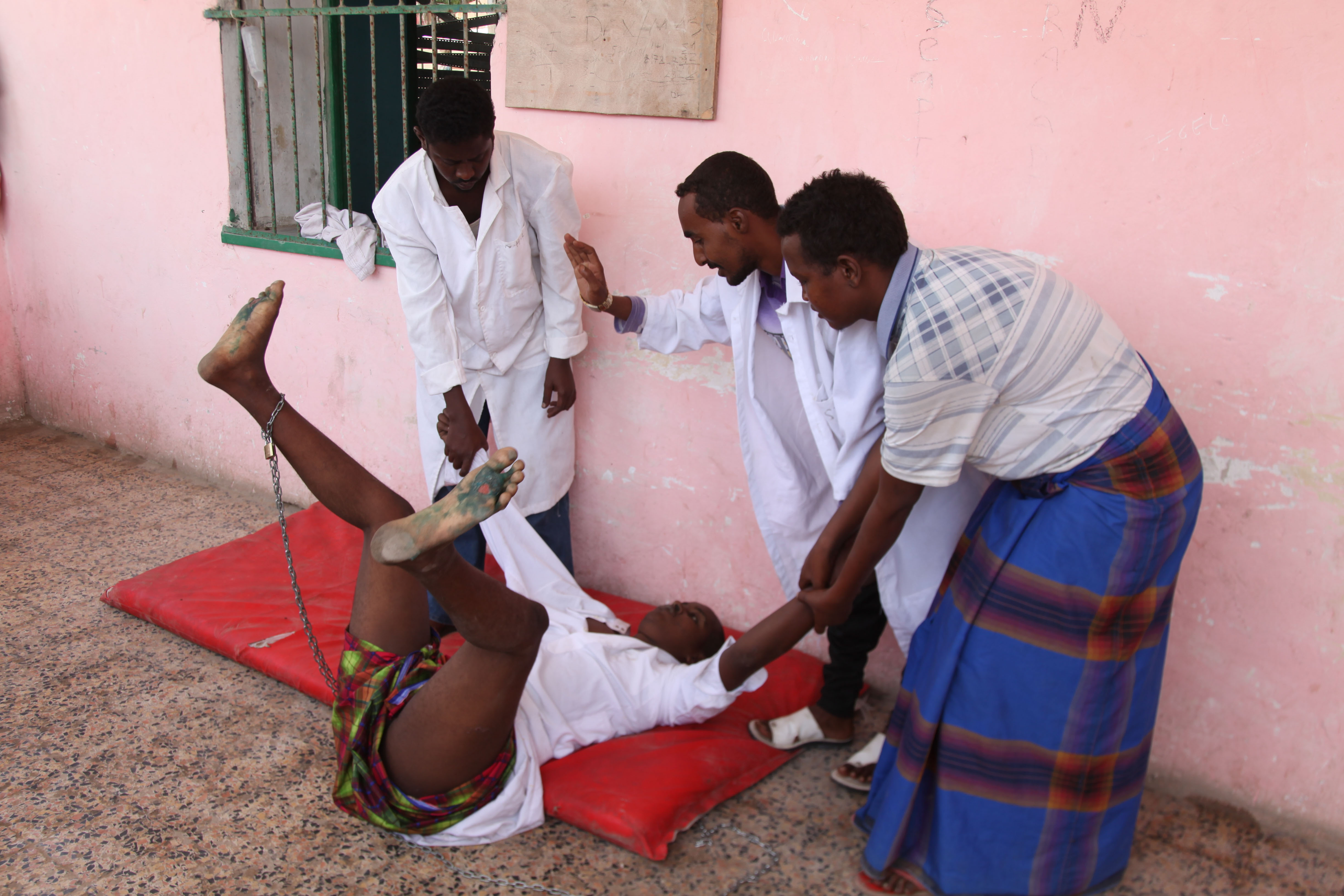 Staff at the Habeb Mental Hospital in Mogadishu, Somalia, assist a mentally disabled person on 24 December, 2013. Habeb Mental Hospital is one of just a handful of mental institutions in Somalia which cater to people in the country suffering from mental issues. AU UN IST Photo / Ilyas A. Abukar